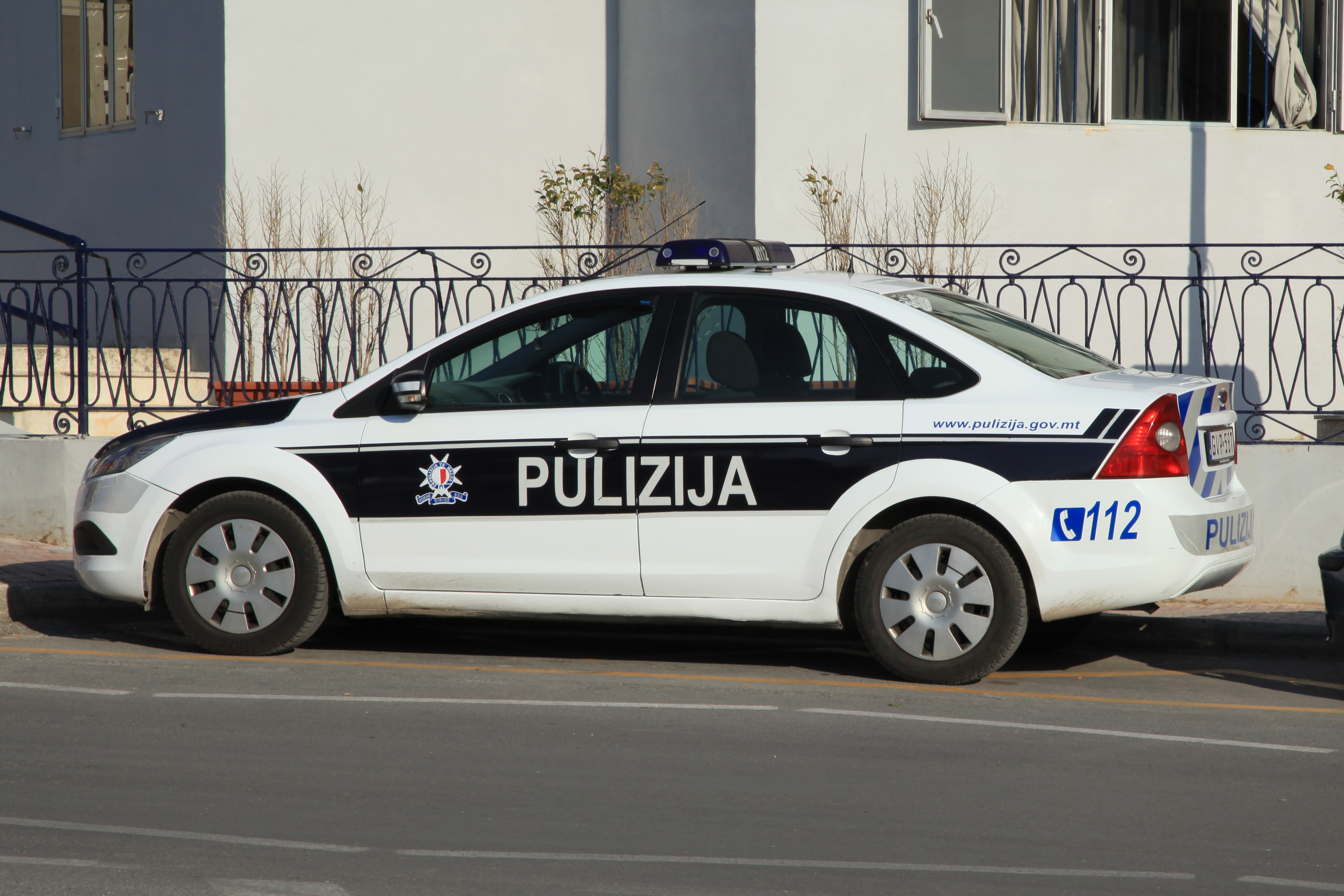 Triq it-Turisti in St. Paul's Bay, Malta